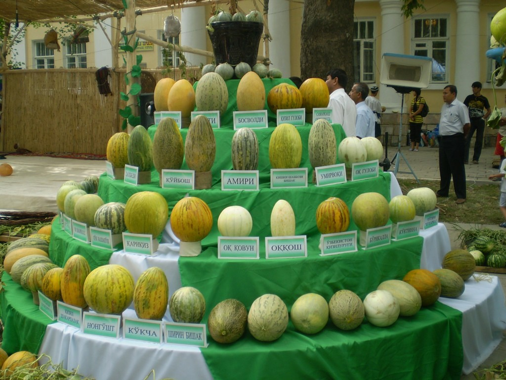 Species muskmelon in Samarkand (Uzbekistan)